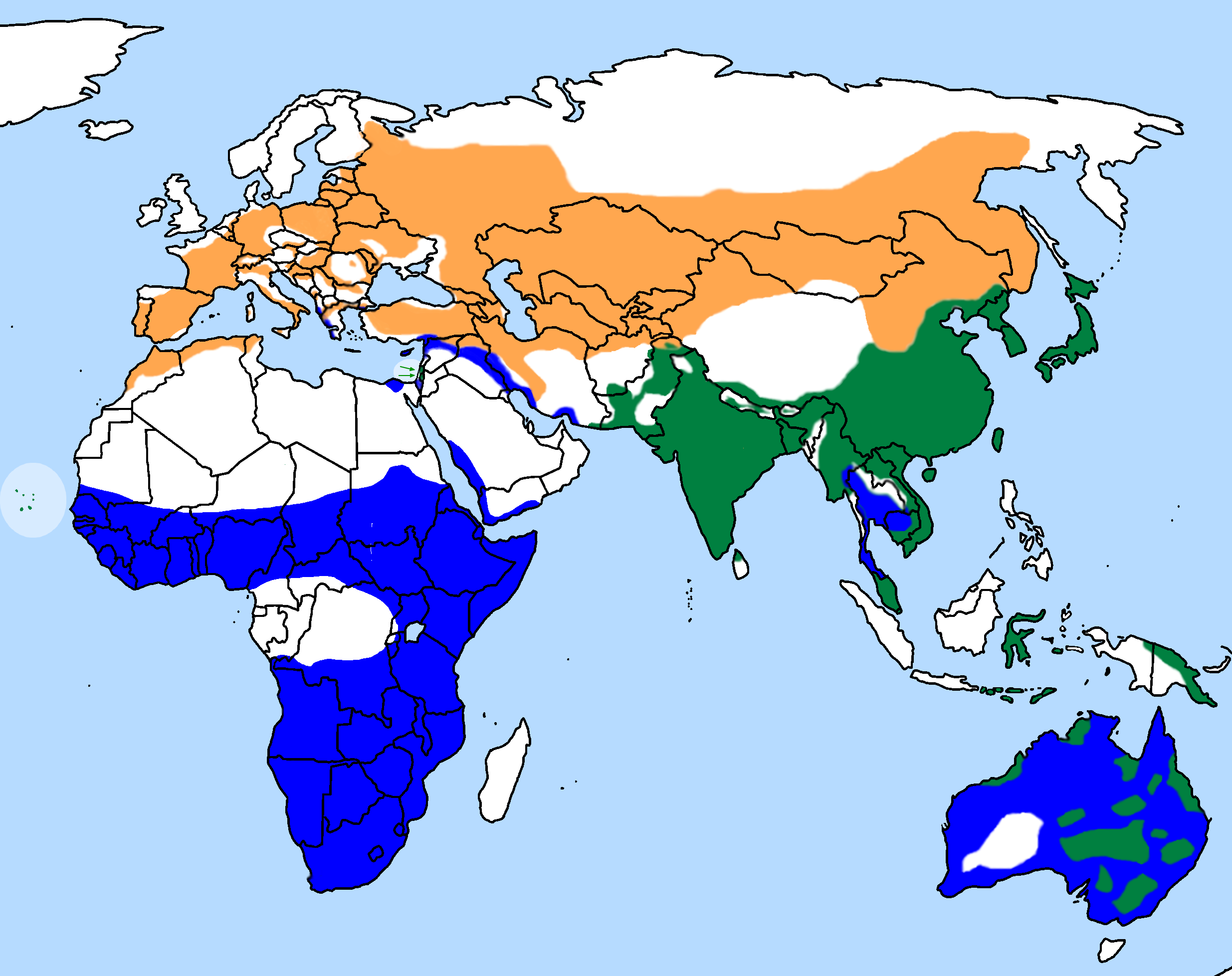 Author is Ulrich Prokop (Scops) Sources: Ferguson-Lees: Raptors of the World. p. 382 Ortlieb: Der Schwarzmilan. p. 32